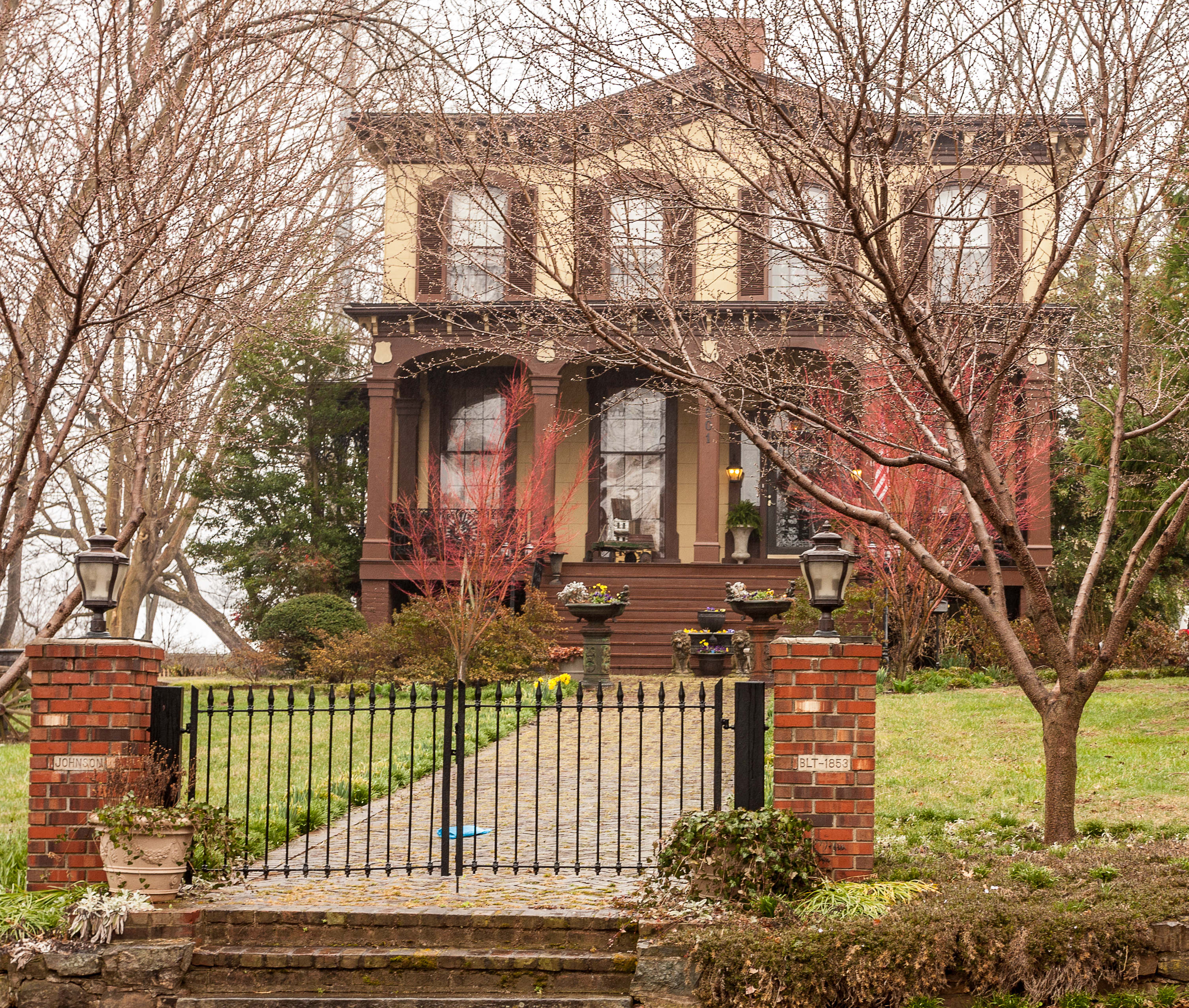 Home built in 1857 for Edward Baptist Hill, brother of Lt. Gen. A. P. Hill. It also served as a Confederate hospital and later as headquarters for Union officers.